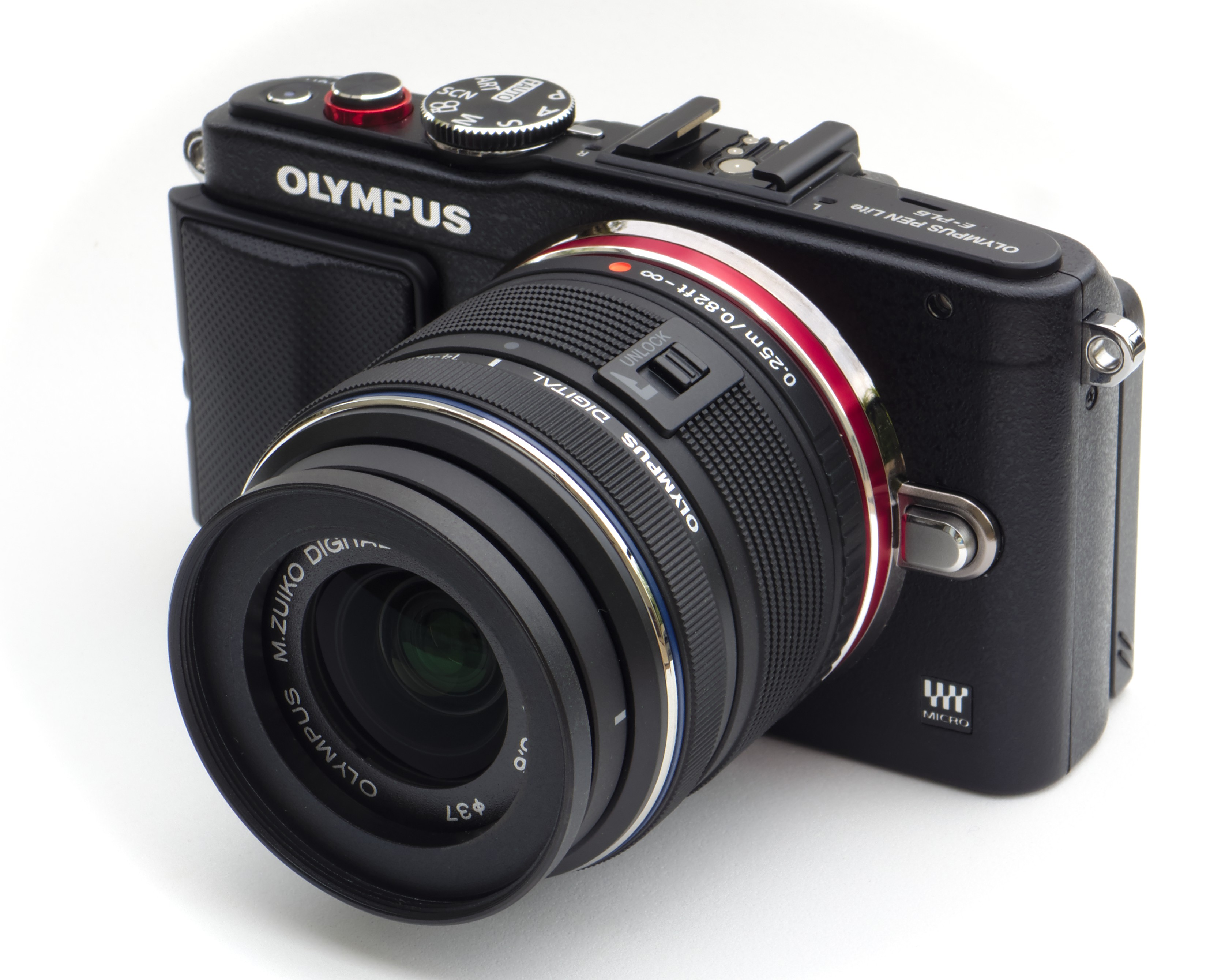 Olympus PEN E-PL6, black model, with 14-42mm kit lens (and a 46mm step up ring, because I forgot to remove it).